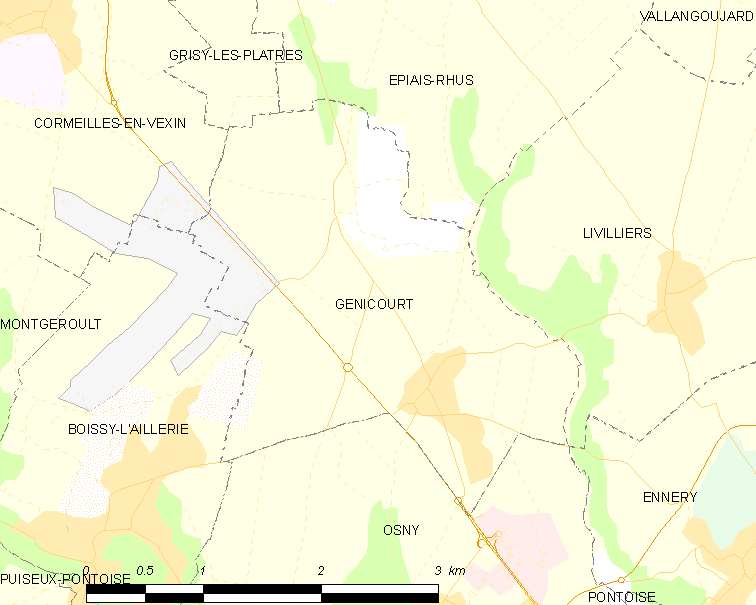 Map of French municipality Génicourt